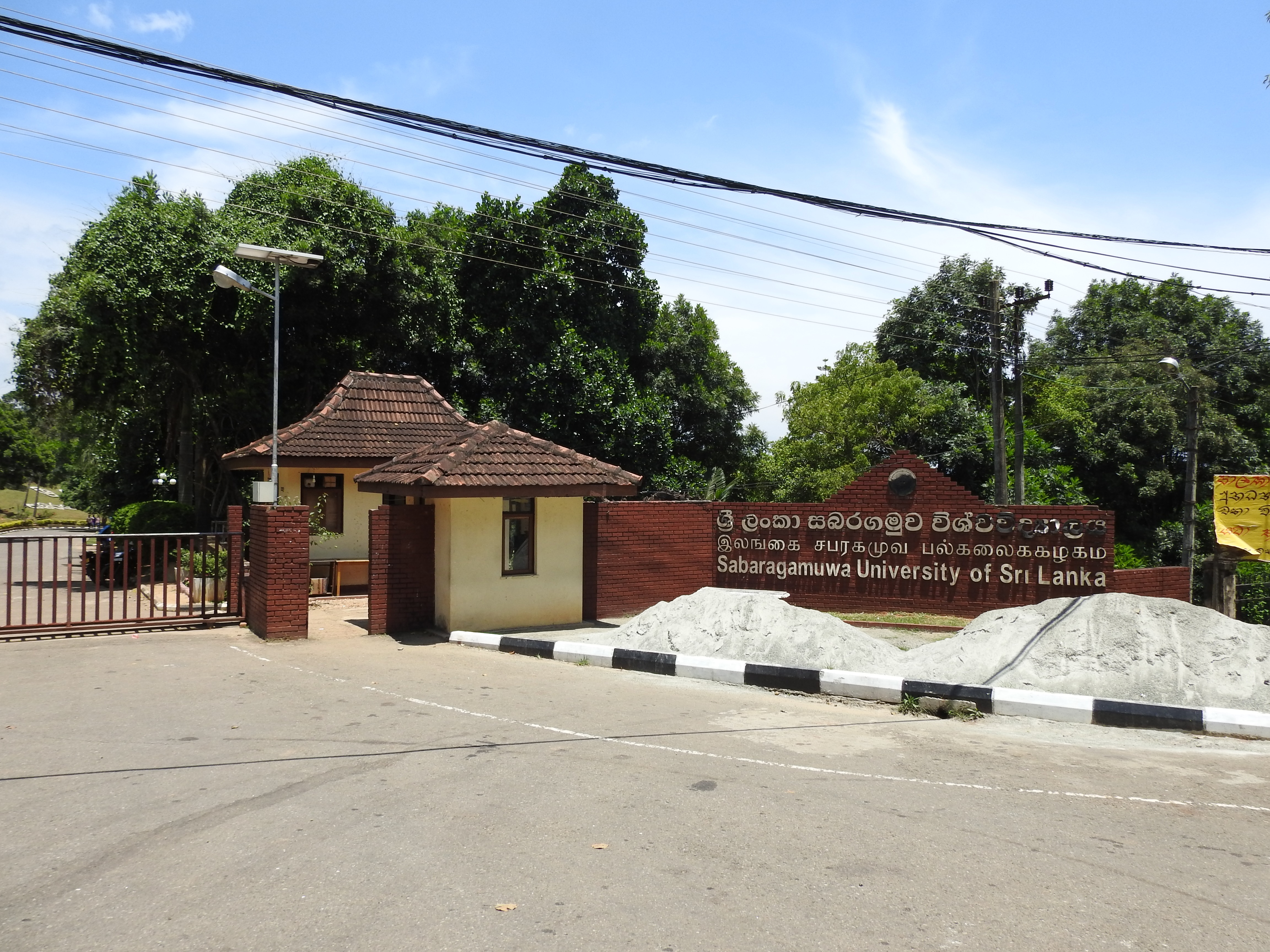 This photo was taken as part of a photo project by Wikimedia Community User Group Sri Lanka, covering current/future hydroelectric dams (and its surroundings) in the Central and Sabaragamuwa provinces of Sri Lanka. User:Rehman handled the photography, while User:Azeez and User:PasinduBR handled the logistics/planning of routes. Description of photo: Entrance of the Sabaragamuwa University of Sri Lanka. Further information on the subject(s) of the photograph may be found in the category/ies of this file.